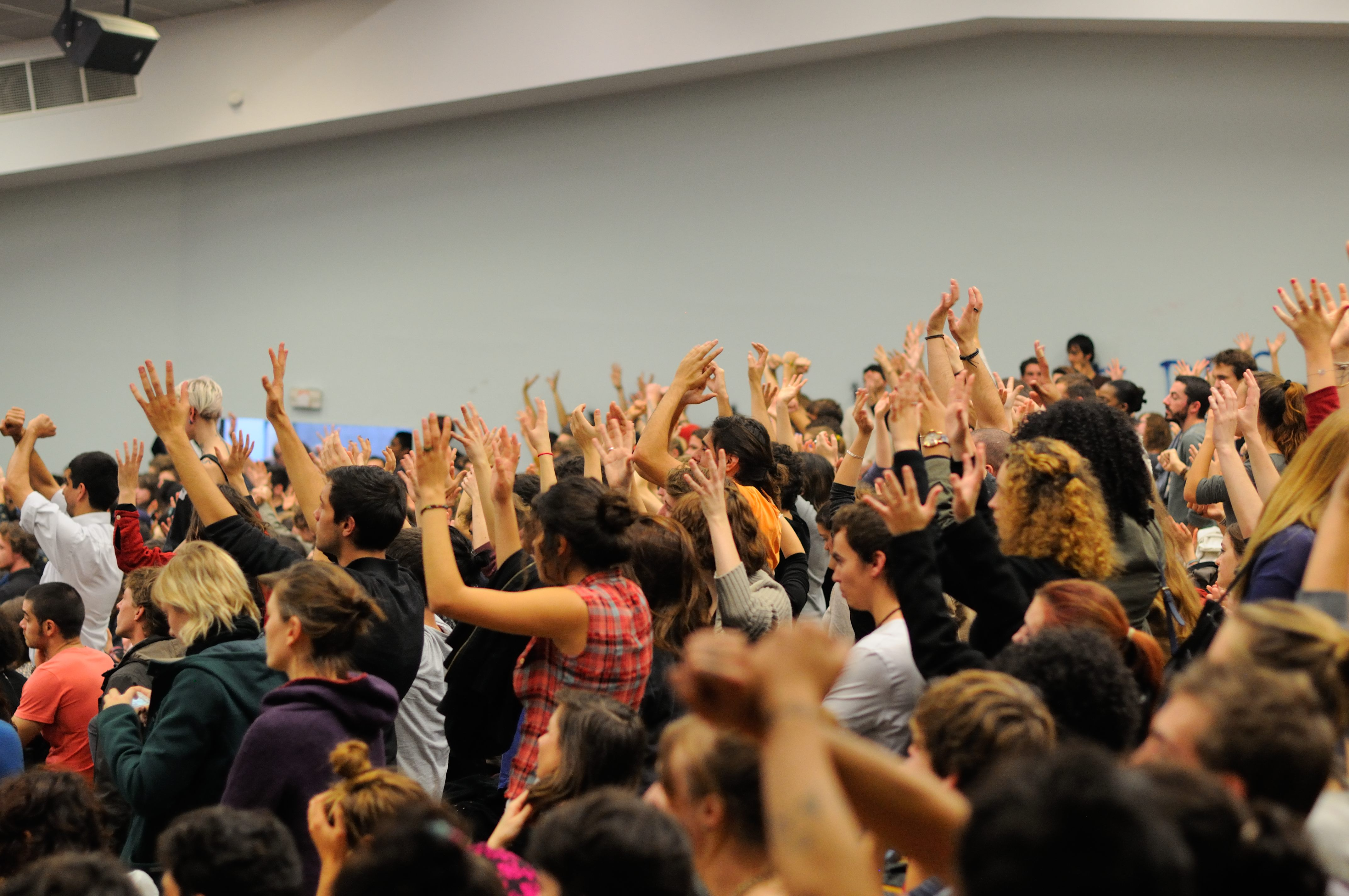 Use of hand signals to express a feeling.